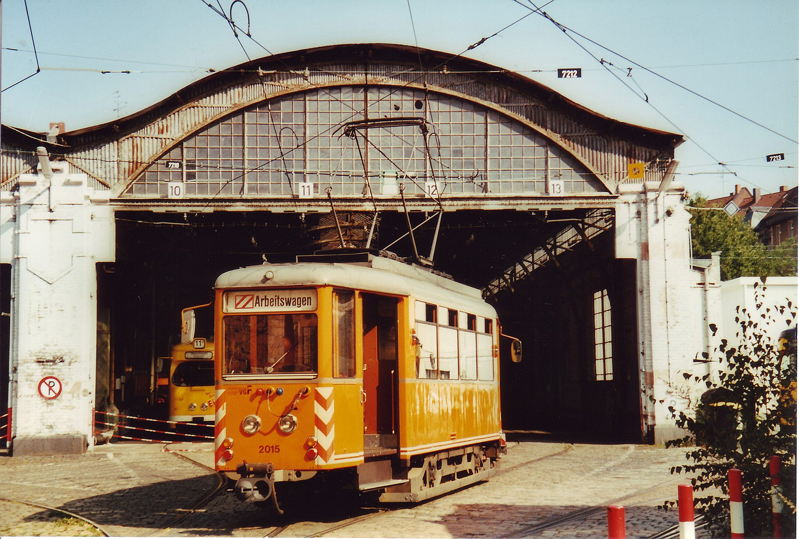 tram depot in Frankfurt am Main-Bornheim with service railcar 2015 in August 2001